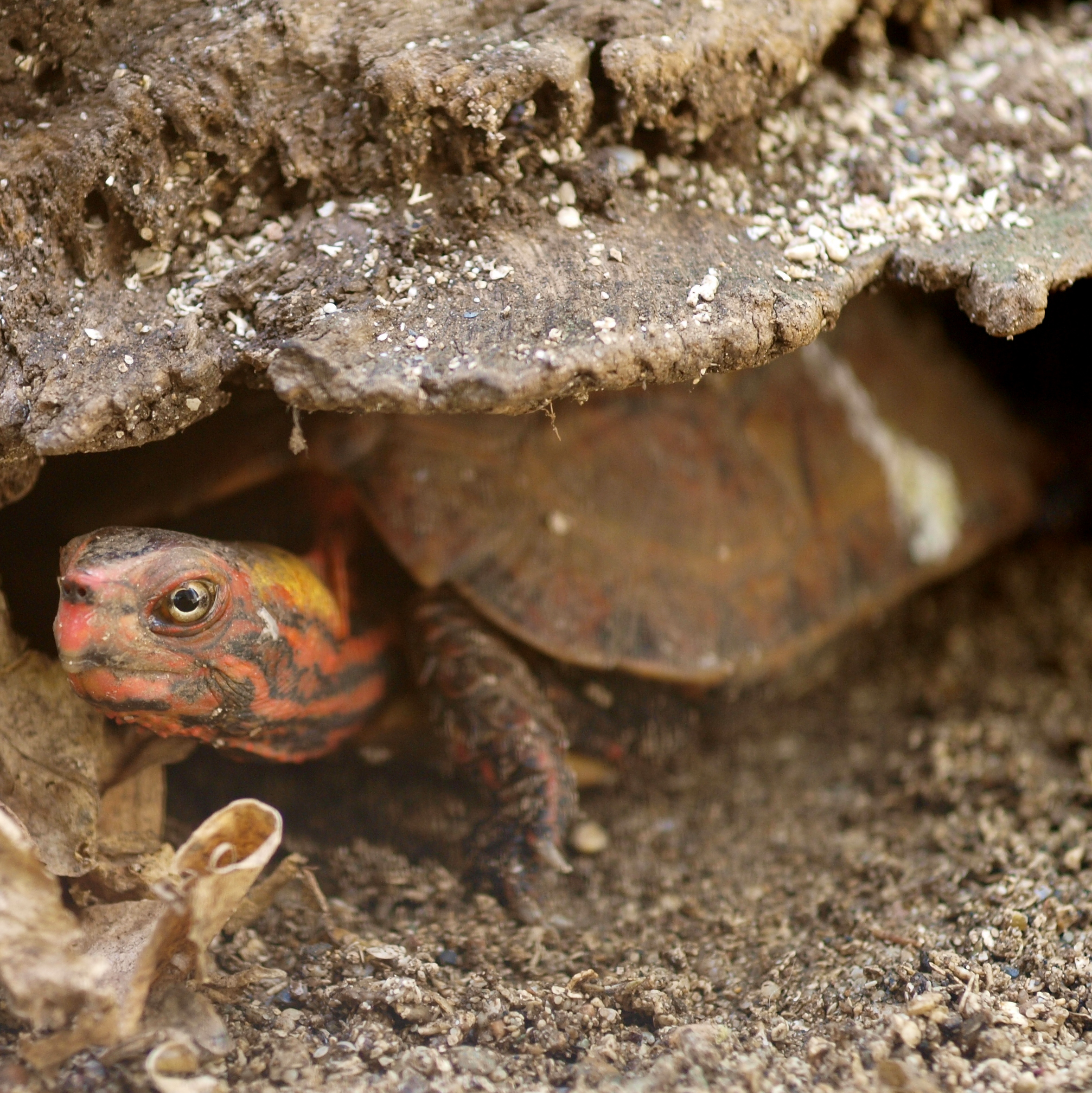 Okinawa black-breasted leaf turtle, at the Neo Park Okinawa, Japan